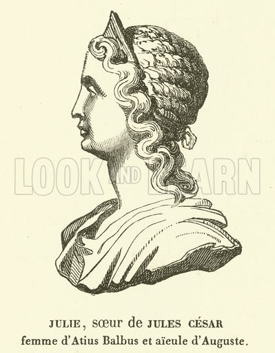 Julia Minor, sister of Caesar